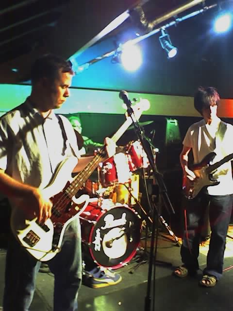 Durutti Column gig photo, Cox's Yard, Stratford on Avon, UK, 10 June 2006